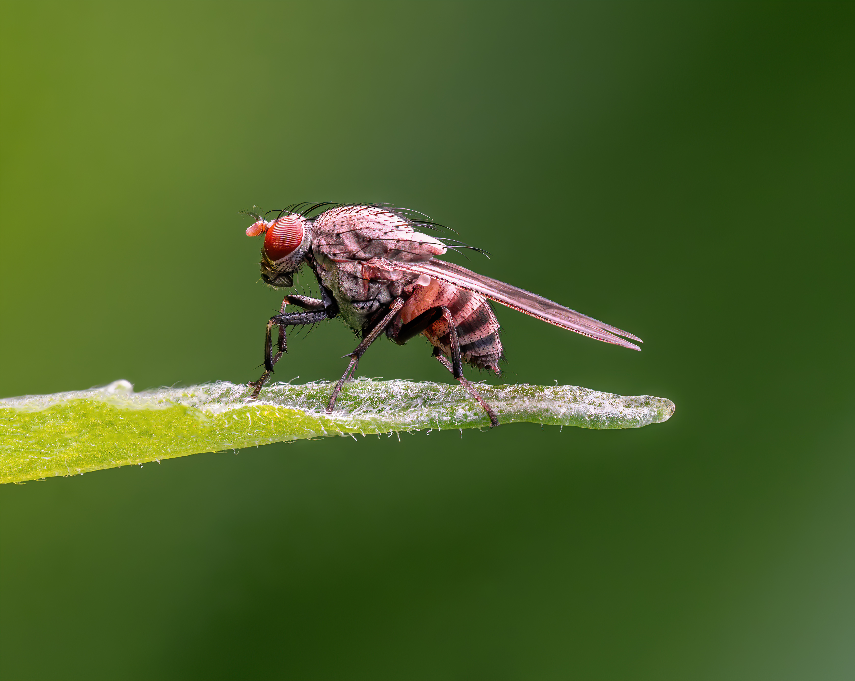 Fruit fly in a garden in Bamberg. Focus stack of 11 pictures